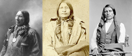 Three Wagluhe leaders in composite. Left to right: American Horse, Three Bears and Red Shirt.